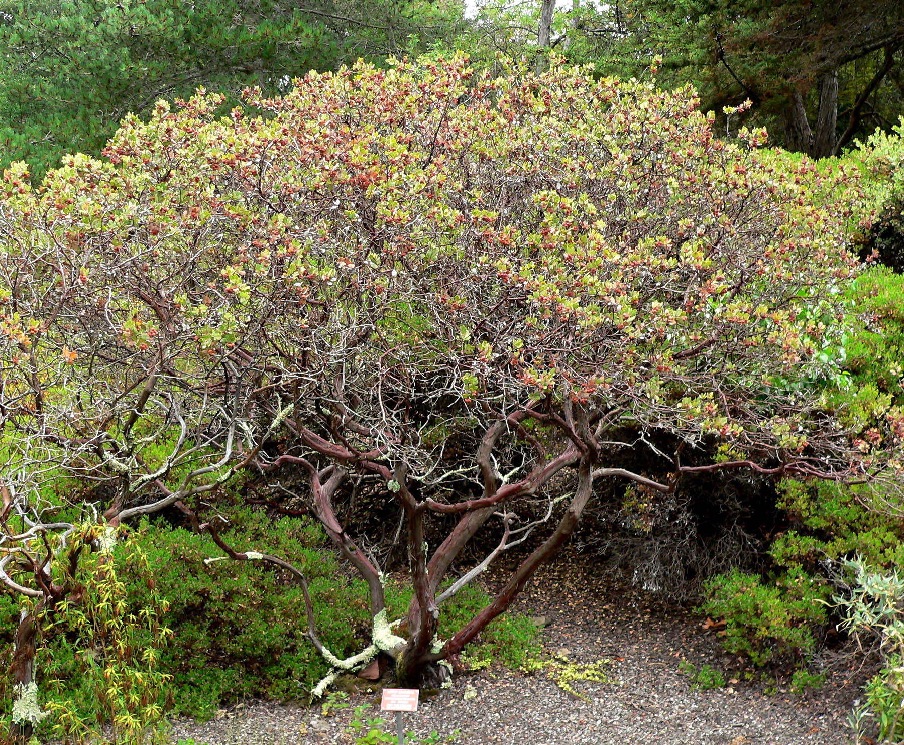 Photo of Arctostaphylos morroensis at Regional Parks Botanic Garden